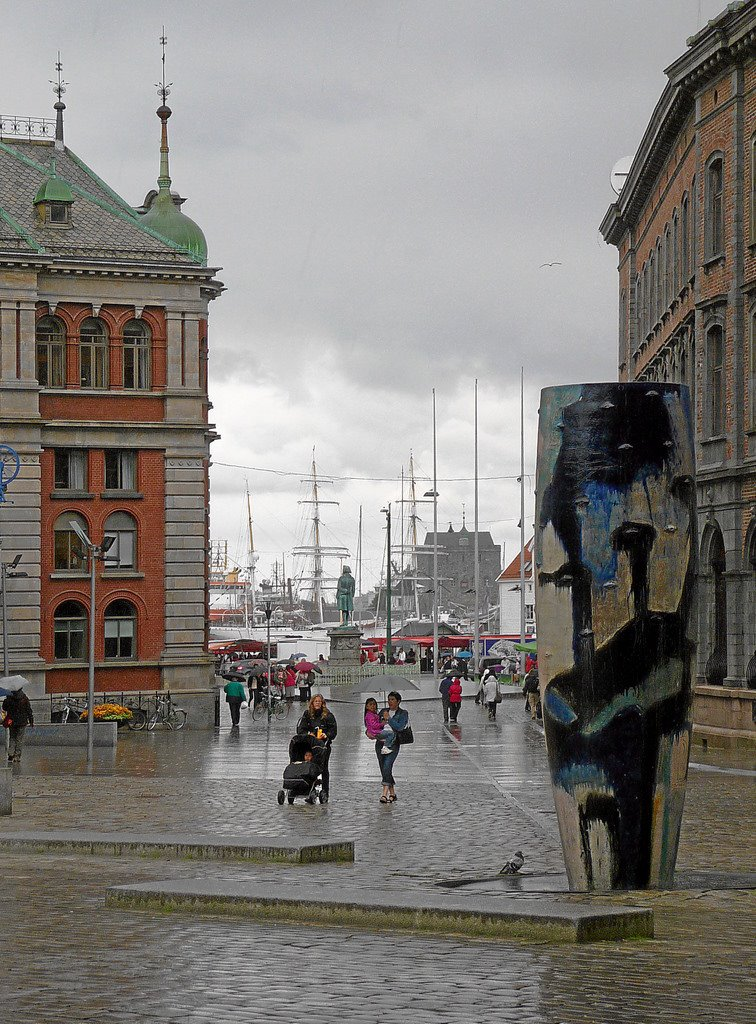 vågsallmenningen in bergen on a rainy day